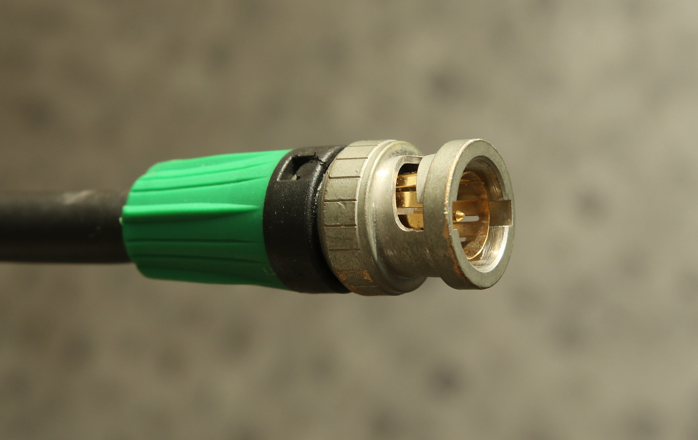 A 75 ohm BNC connector